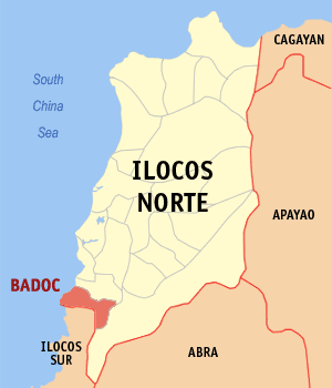 Map of Ilocos Norte showing the location of Badoc